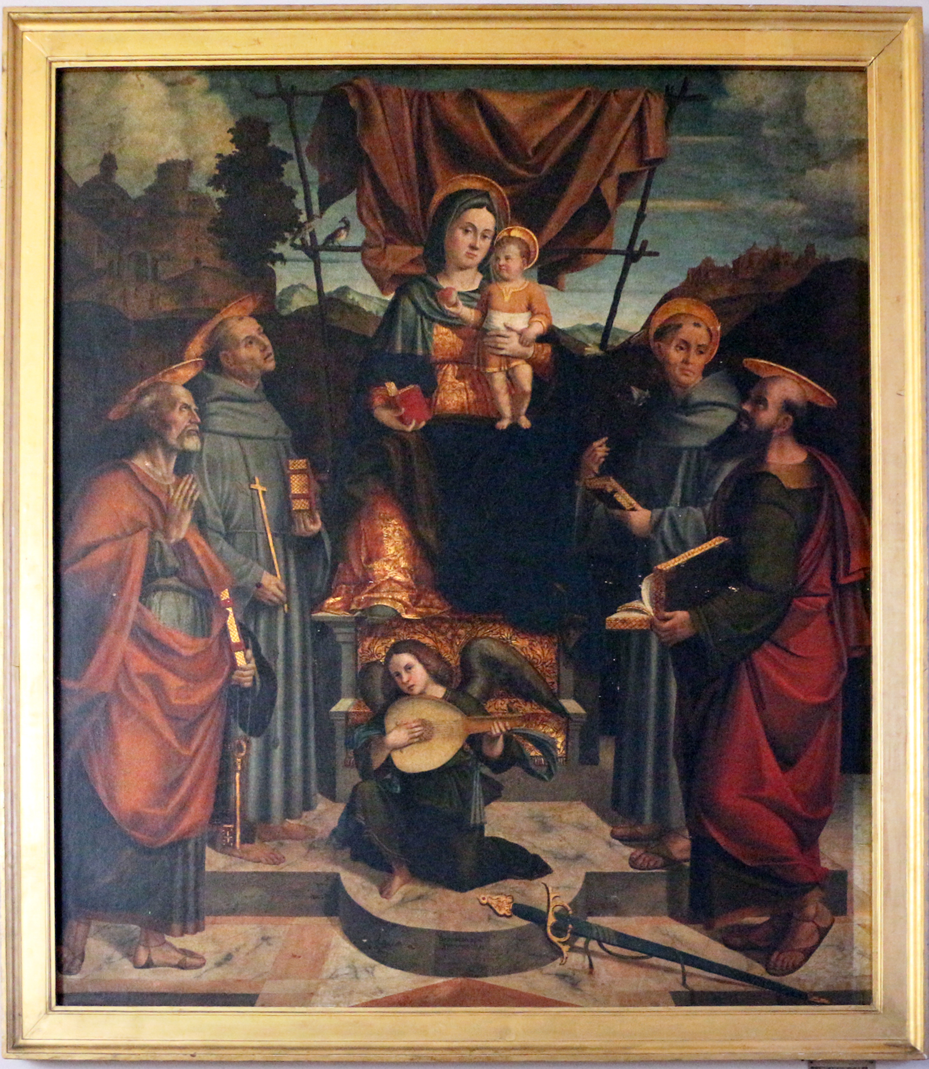 Museo Nazionale della Scienza e della Tecnologia (Milan)